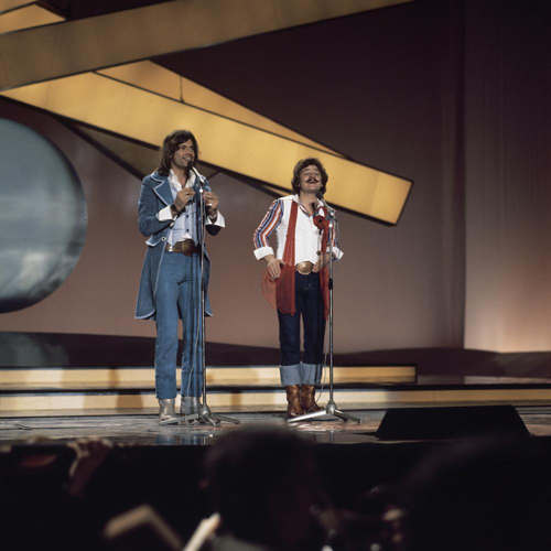 Waterloo & Robinson at a rehearsal for the Eurovision Song Contest 1976.